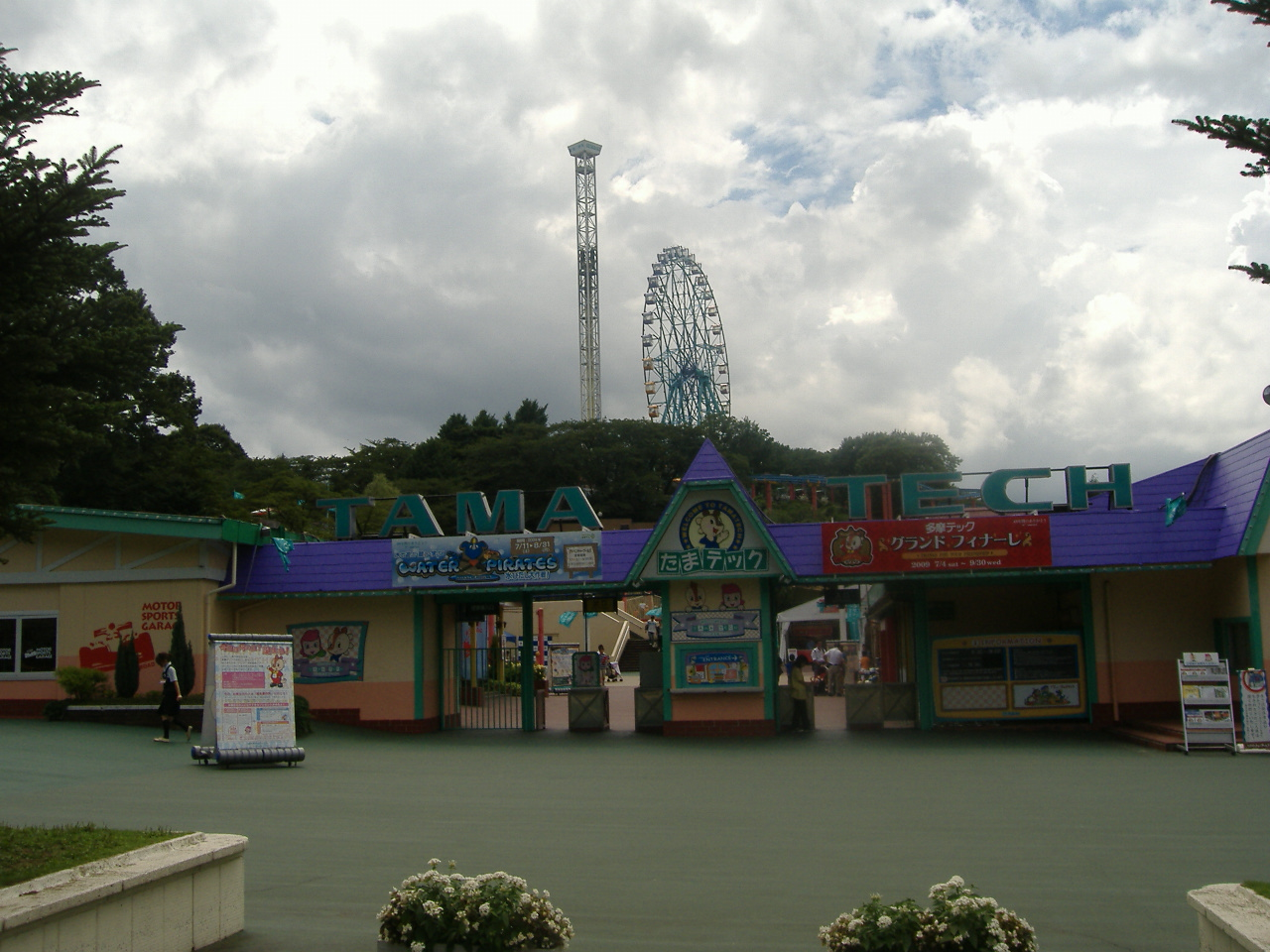 Tama-tech,Entrance